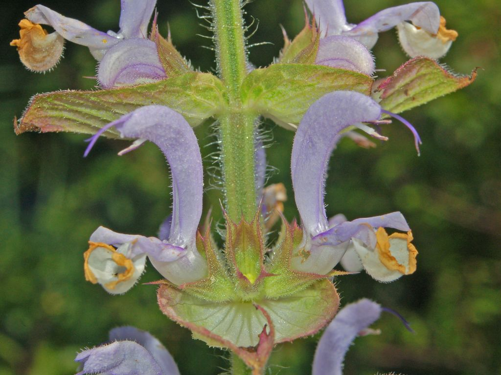 Salvia scarea - S. Agata Fossili, Alessandria, Italy